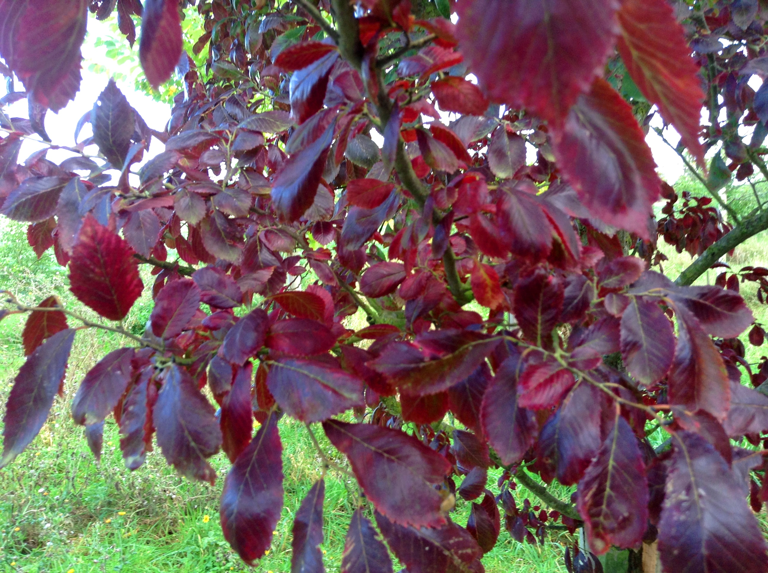 Photo of the autumn foliage of Ulmus 'Frontier' taken at Grange Farm Arboretum, Lincolnshire, England